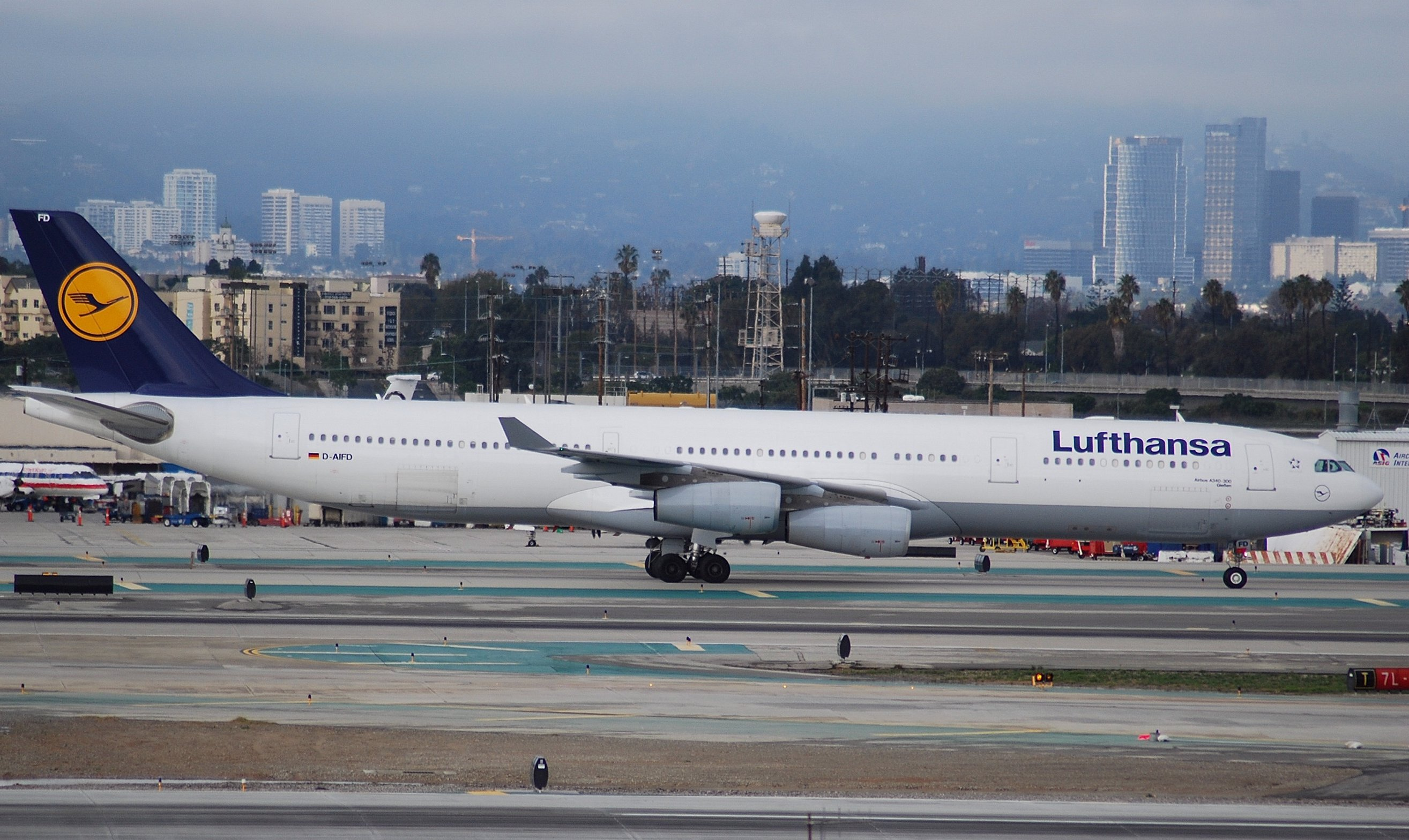 Nice to see the 300 series